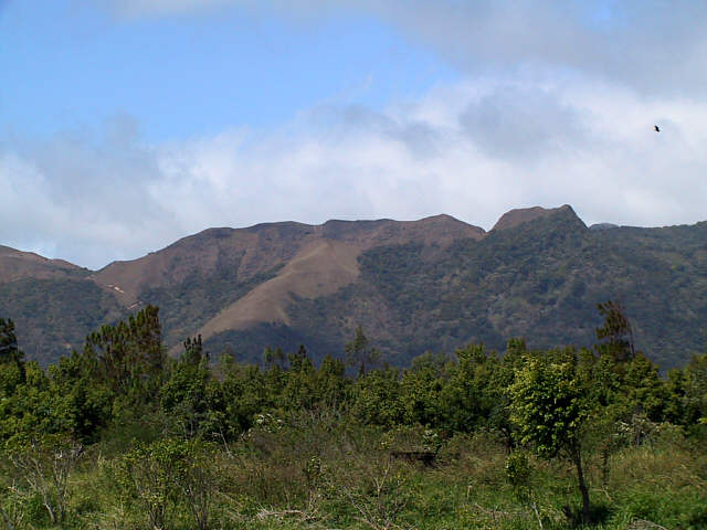 Its file have the picture of La India Dormida in Panama